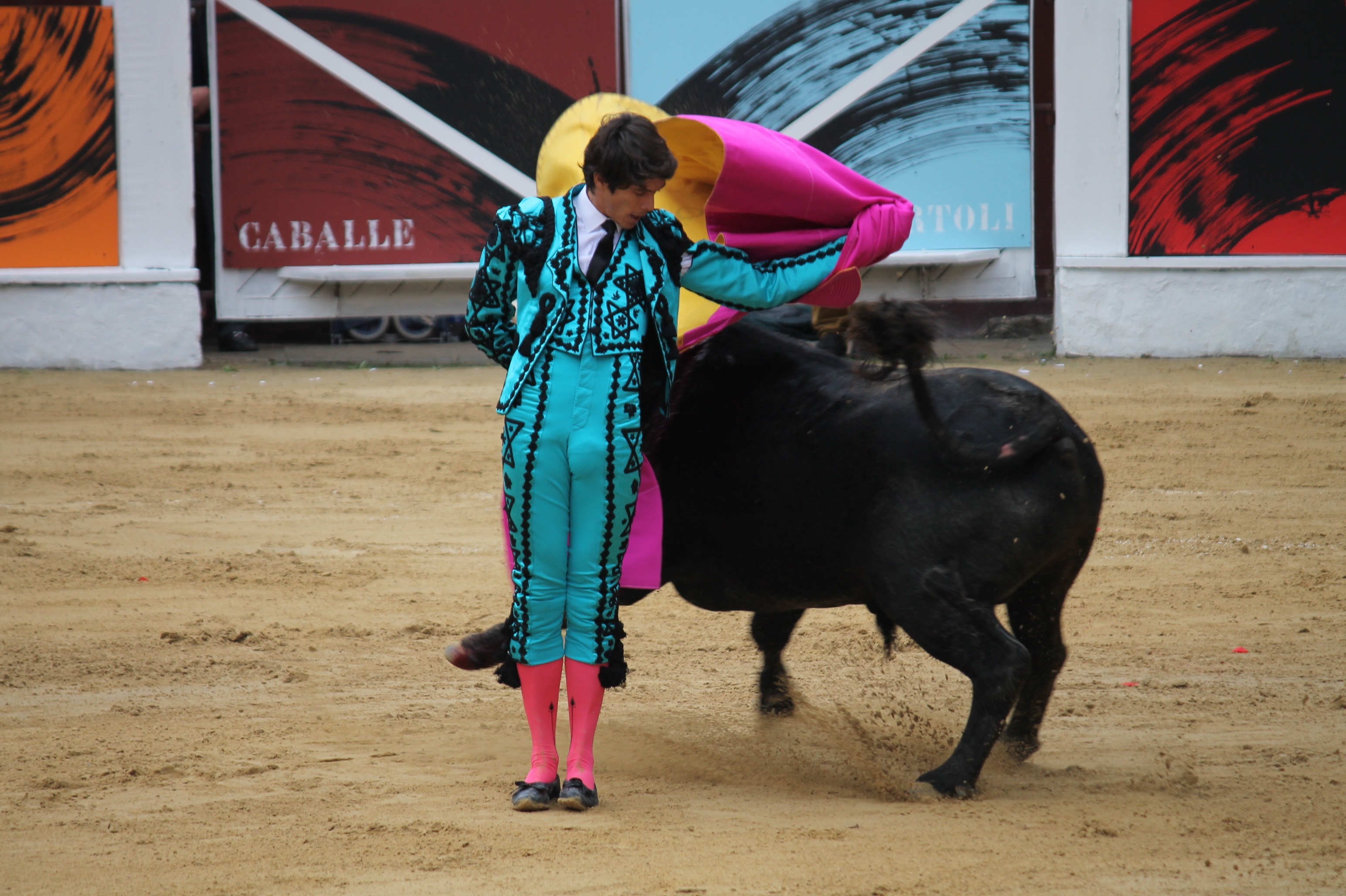 Tercera corrida de abono de 2019 en Bogotá